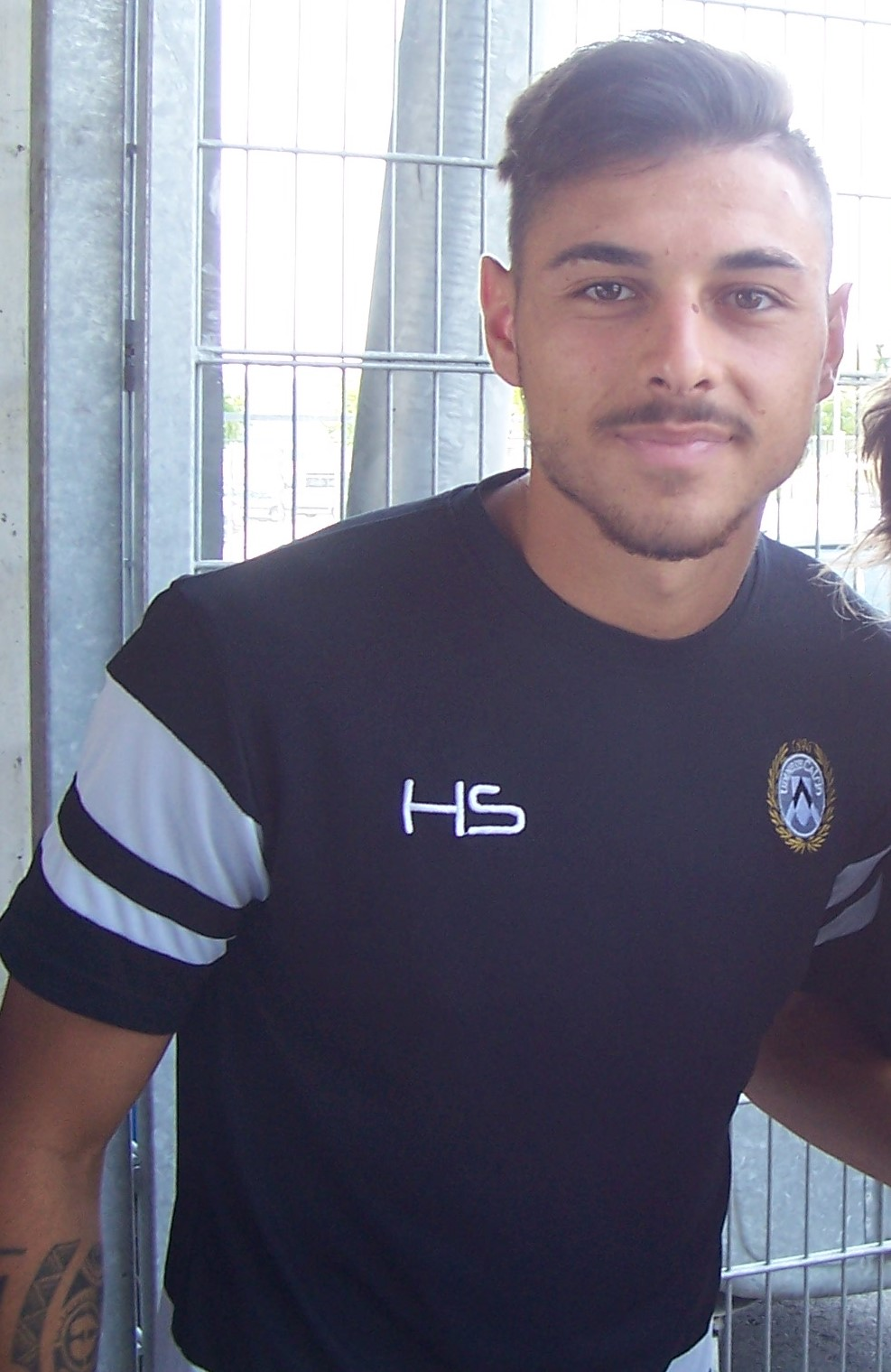 Giuseppe Pezzella during 2017 preseason in Sankt Veit an der Glan